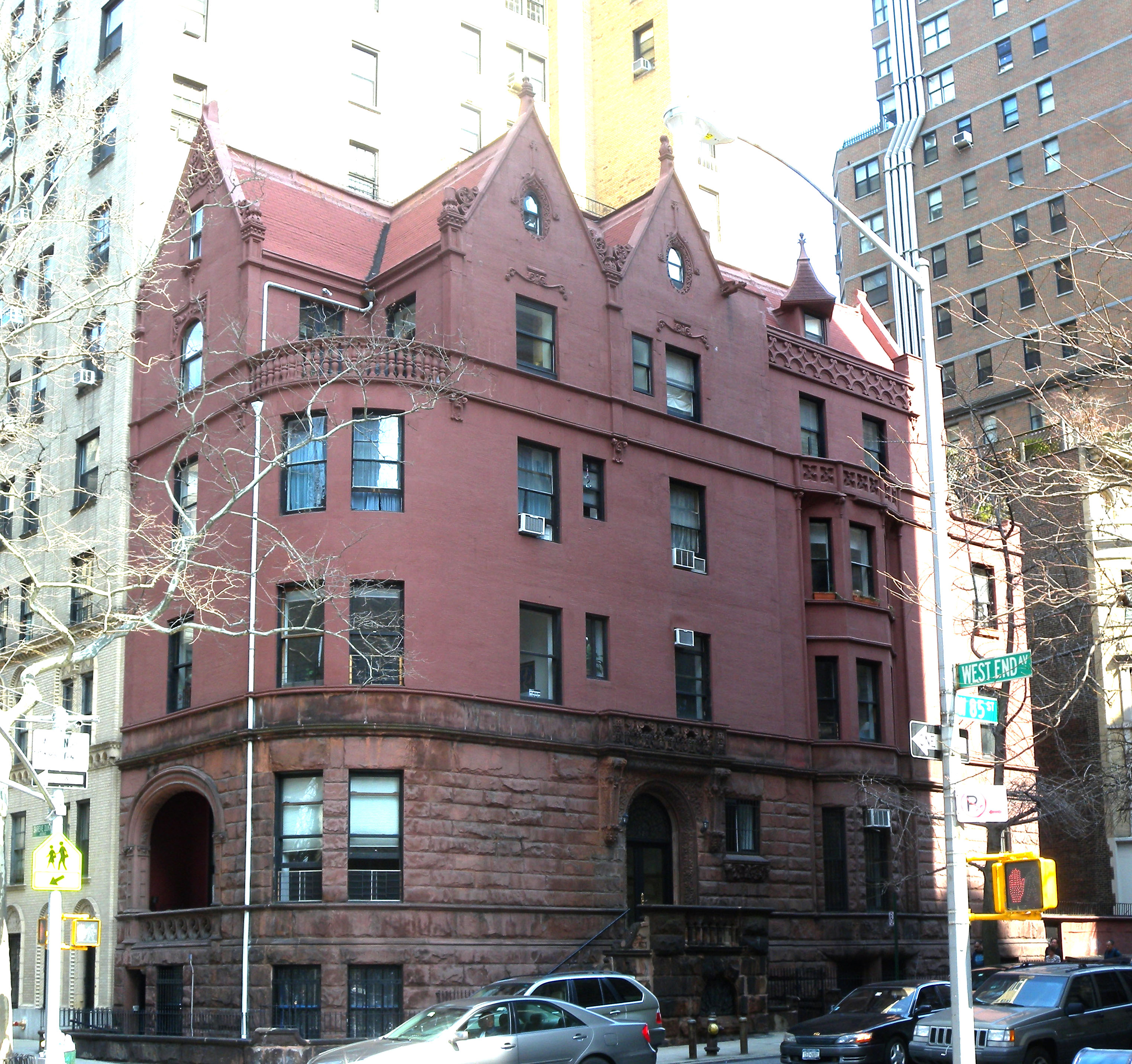 Looking east across West End Avenue at en:520 West End Avenue on a sunny afternoon.